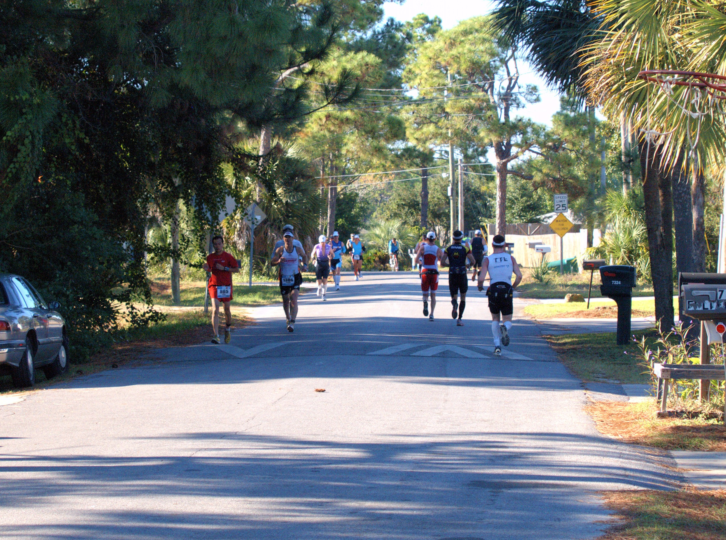 Running Course Ironman Florida on South Lagoon Drive at Panama City Beach